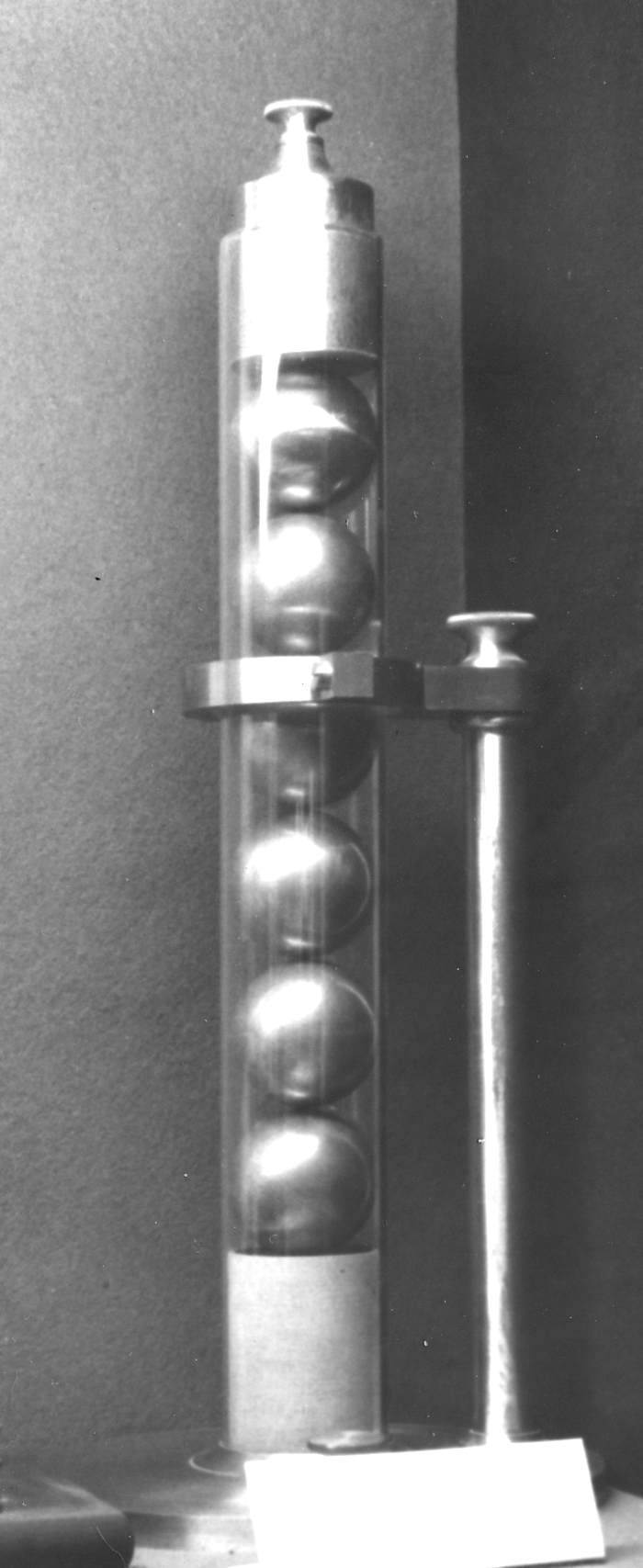 A 'ball' coherer, an antique radio wave detector used in the first radio receivers around 1900. This unusual type, invented by Edouard Branly in 1899, used a row of lightly touching steel balls in a tube between two electrodes. A radio wave from an antenna is applied to the end electrodes, directly across the balls. When a radio signal arrives, it causes the DC resistance of the contacts between the balls to decrease. This triggers a battery-powered circuit, also connected across the electrodes, to make a "click" sound or a mark on a paper tape to record the radio message. The balls must be "decohered", reset to the high resistance state, by tapping them mechanically after every signal. Branly found that radio waves from a nearby electric spark reduced the resistance of the device from 2000 to 100 ohms. The sensitivity can be varied by tilting the tube to different angles. (See E. Branly (1899) "Ball coherer", Comptes Rendes, Vol. 128, p. 1089. Information from John Ambrose Fleming (1919) The Principles of Electric Wave Telegraphy and Telephony, 4th Ed., London, Longmans, Green & Co. p.374)